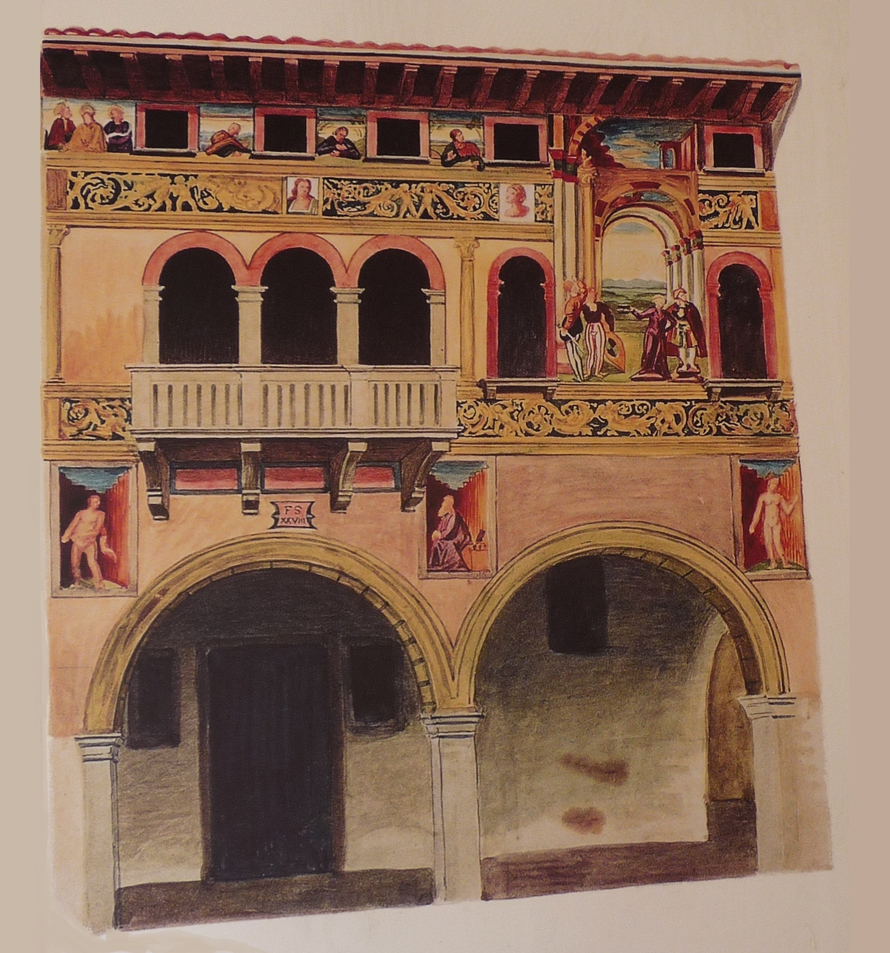 reproduction of a drawing by Federico Stummel (late XIX cent.) on a plaque on Ca da Robegan in Treviso (IT)